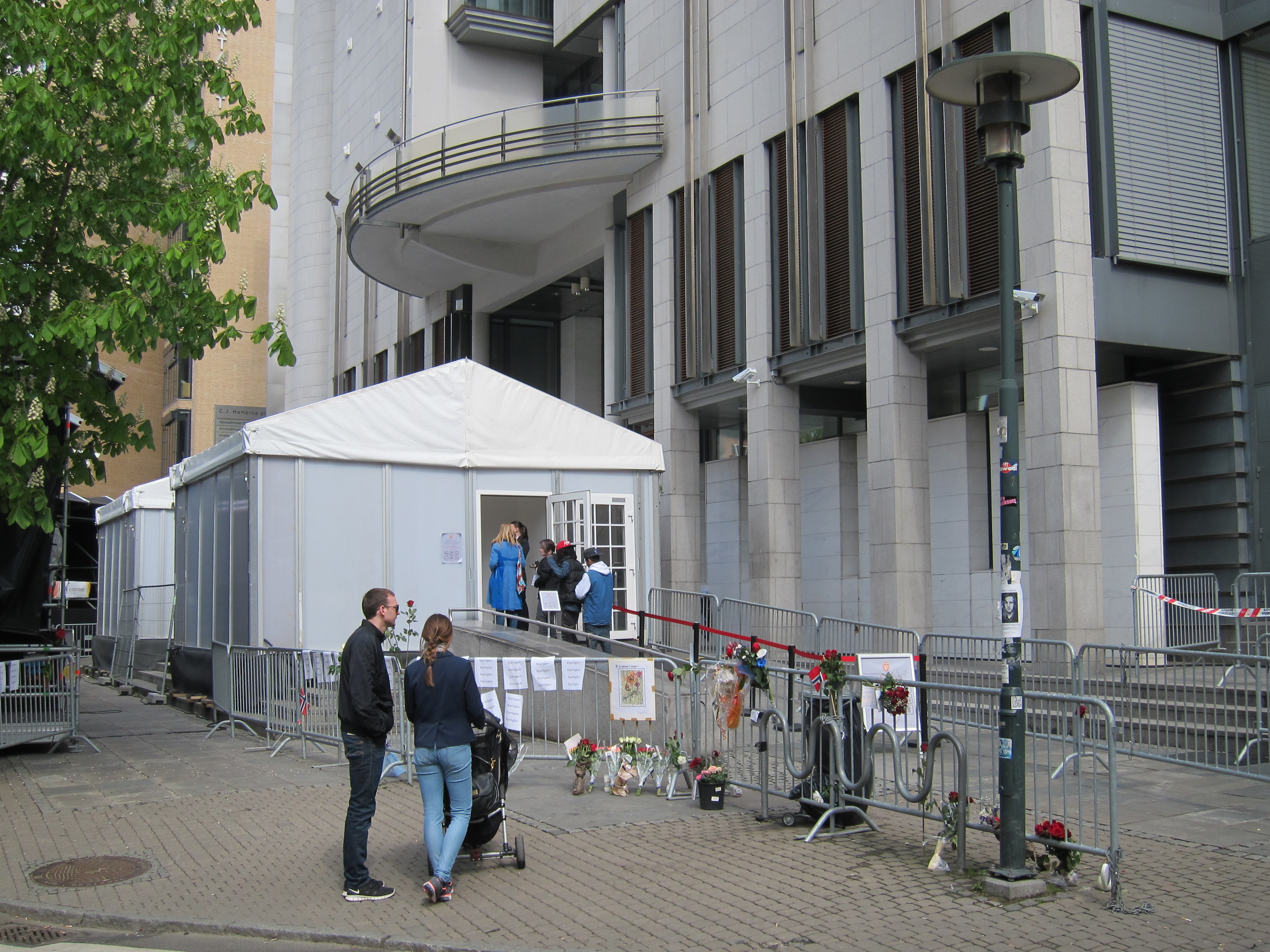 Oslo Tinghus, detail of entrance during the trial of Anders Behring Breivik, massive media attention during the trial.